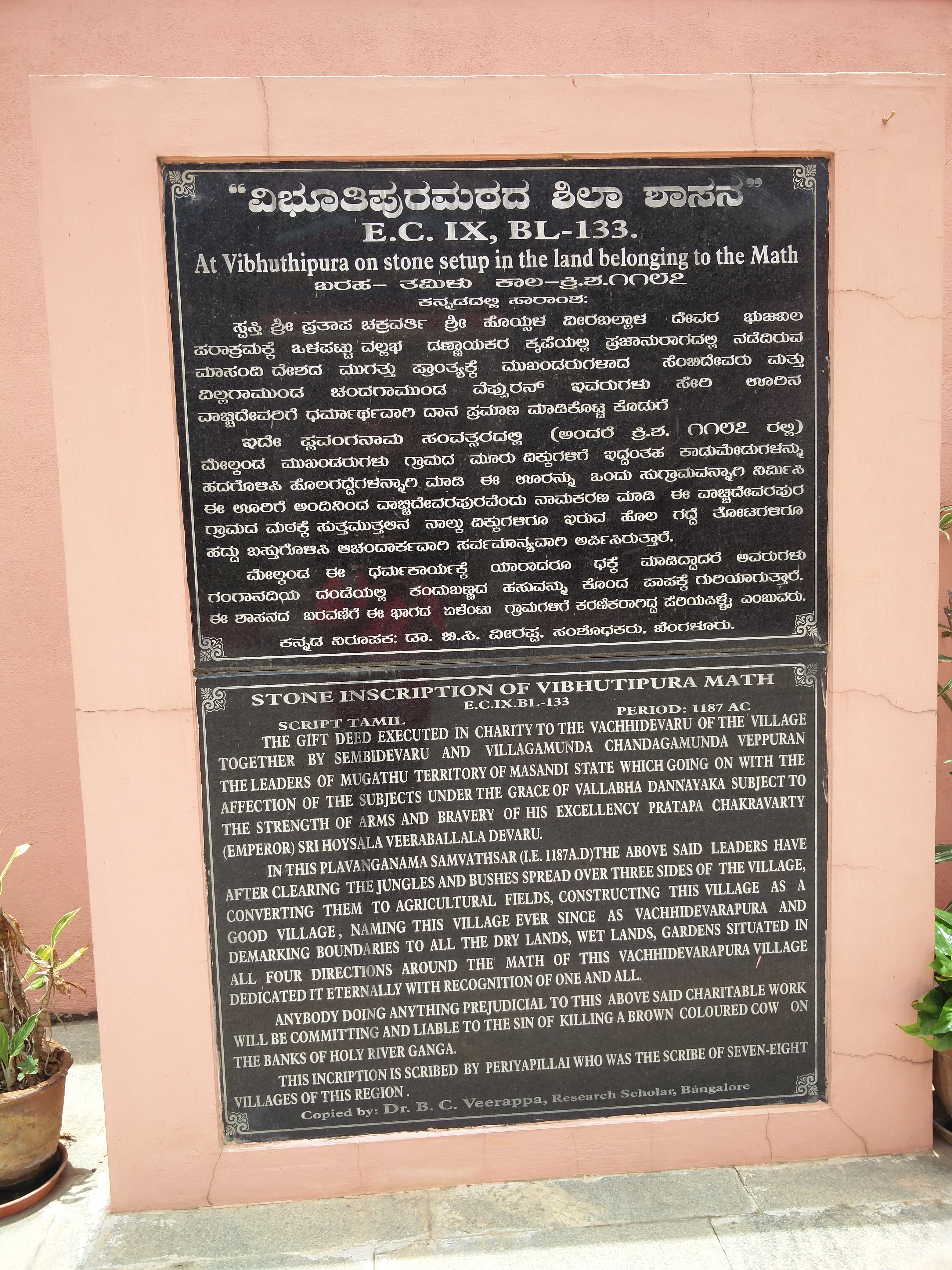 Vibhutipura Stone Inscription -1